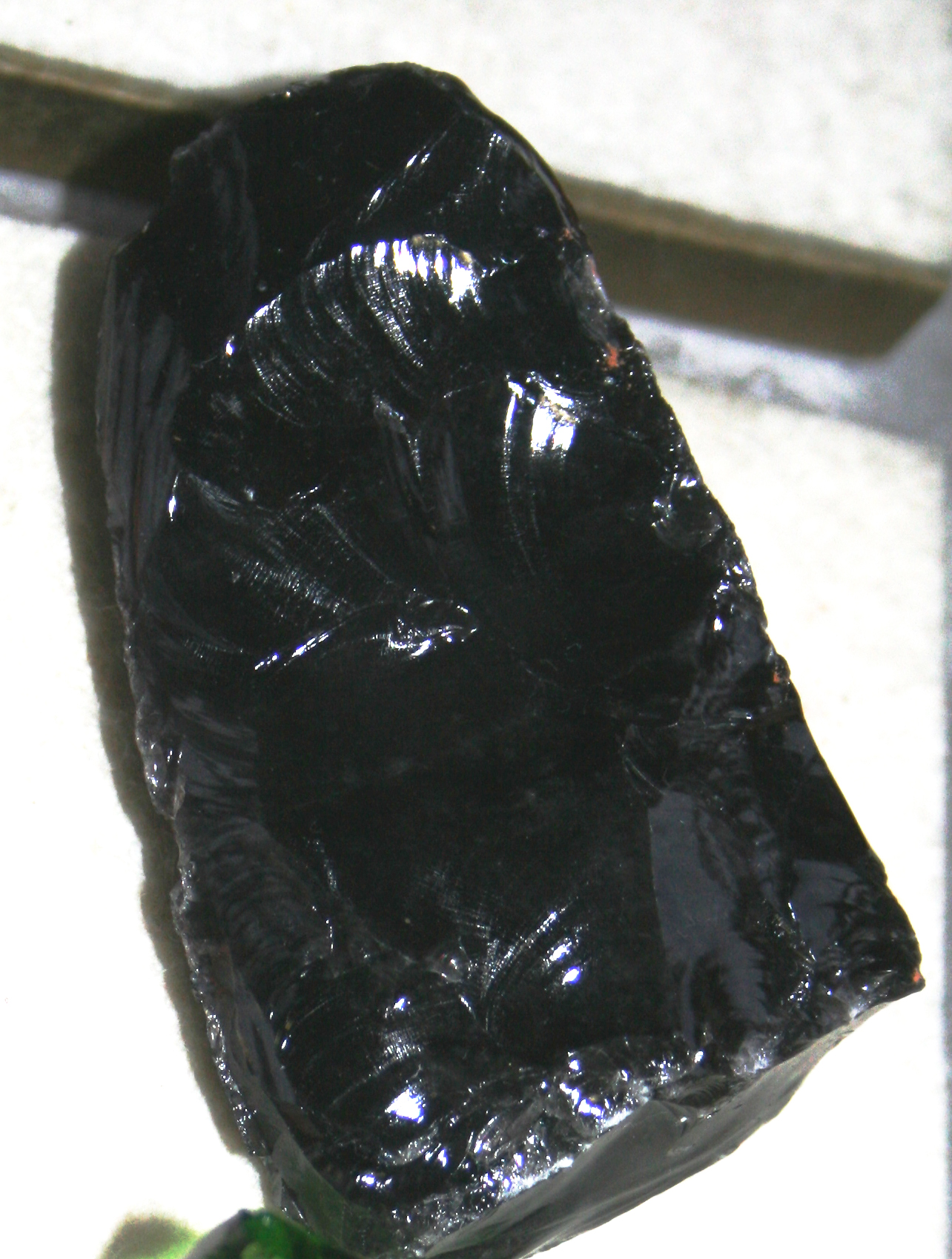 Vulcanic glass obsidian from collection of National Museum, Prague, Czech Republic